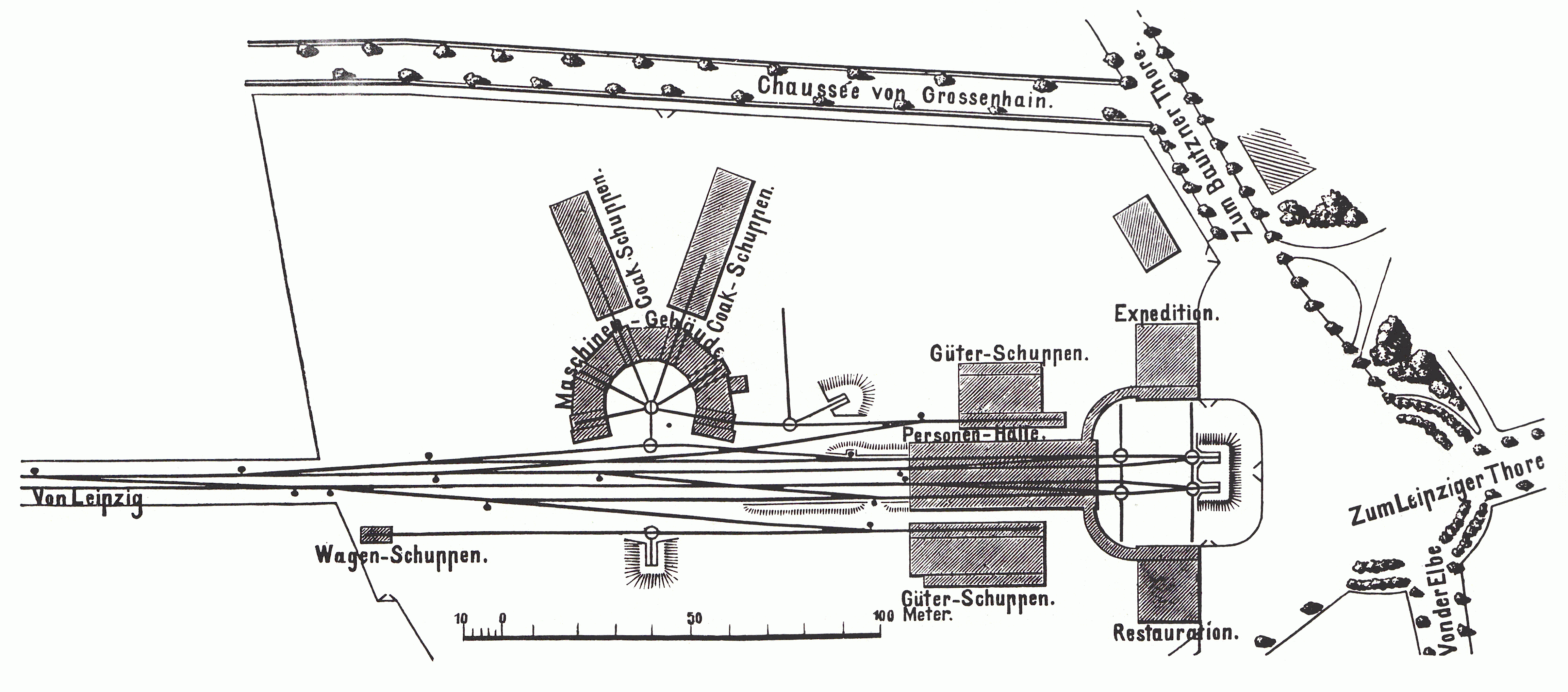 layout of station Leipziger Bahnhof in Dresden in 1839